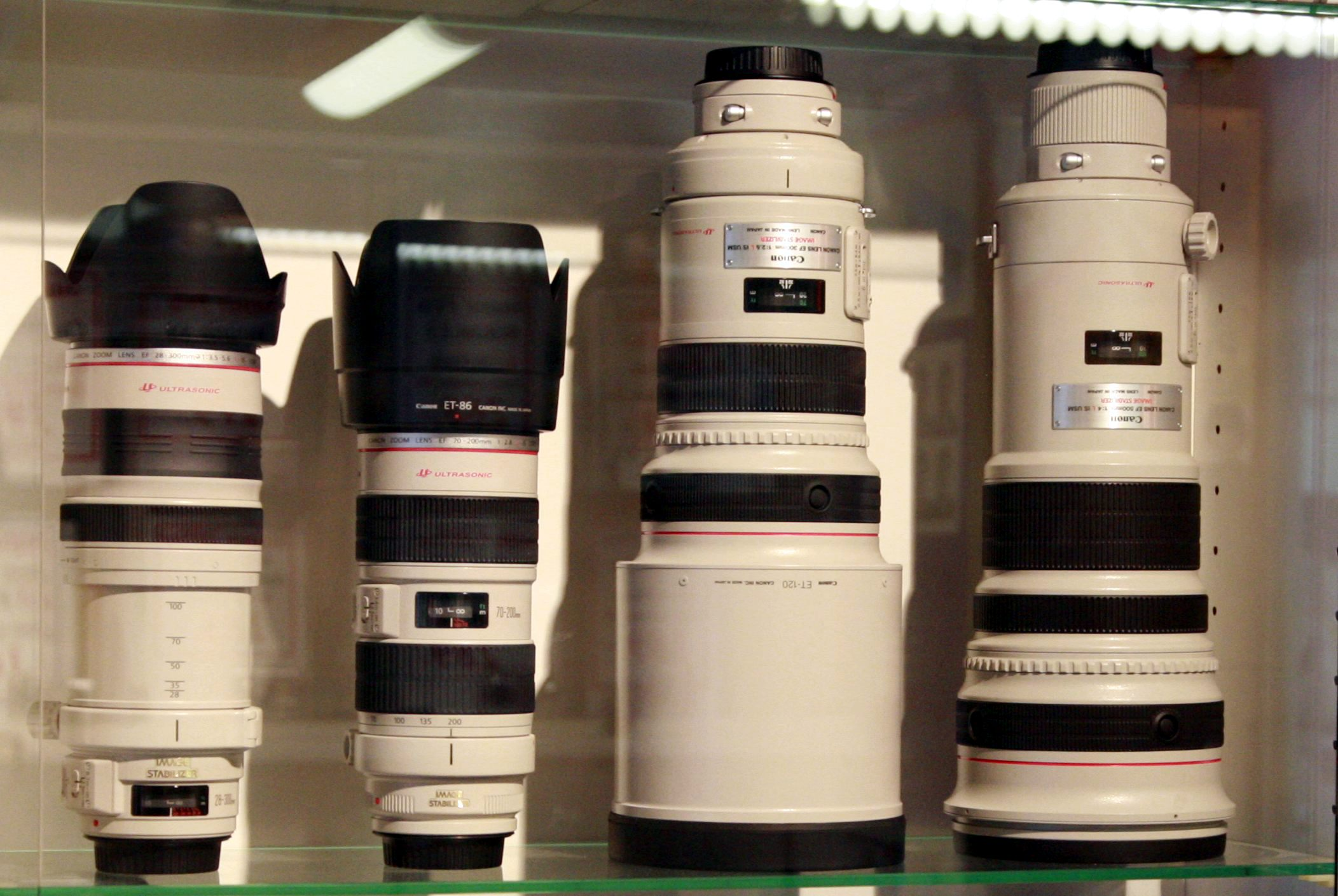 Side by side : 28-300 70-200 f/2.8L IS USM 300mm f/2.8 500mm f/4 IS USM